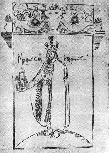 Princess of Mingrelia - wife of Levan II Dadiani. A sketch by the Catholic missionaire Don Cristoforo De Castelli